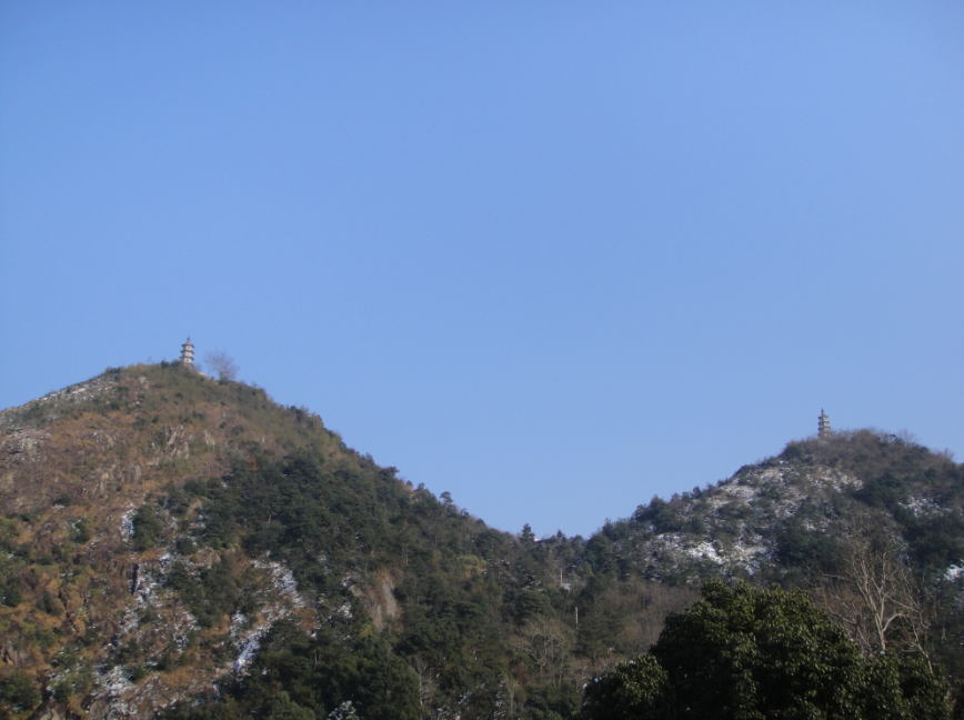 中文（中国大陆）: source=Own work author=*方山双塔远景.PNG: 云中漫步